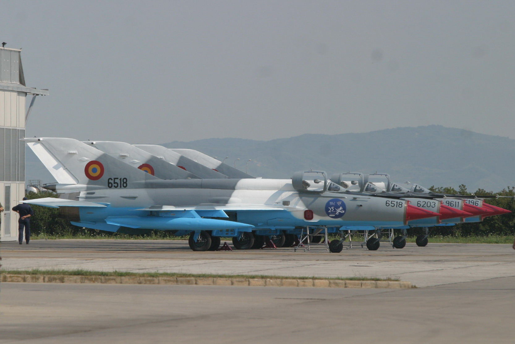 MiG 21 Lancers ready for mission during the NATO Summit Preparations.